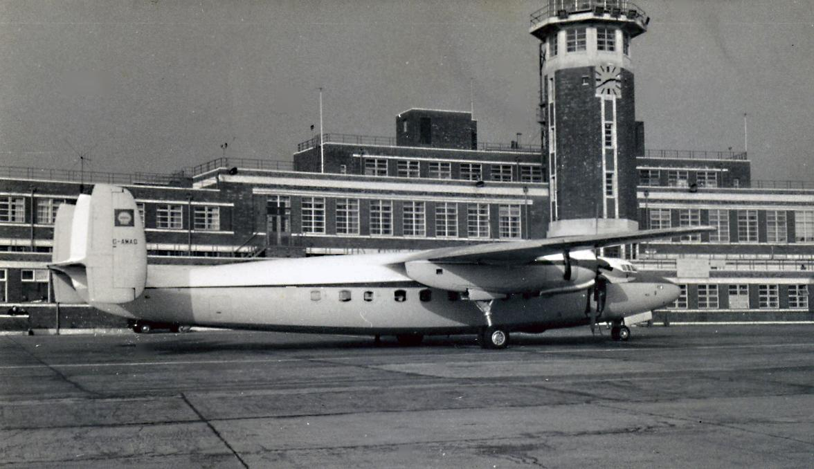 Airspeed Ambassador at Liverpool in 1961